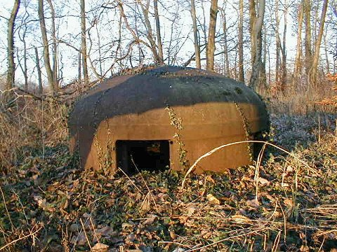 GFM bell at Casemate of Heidenbuckel